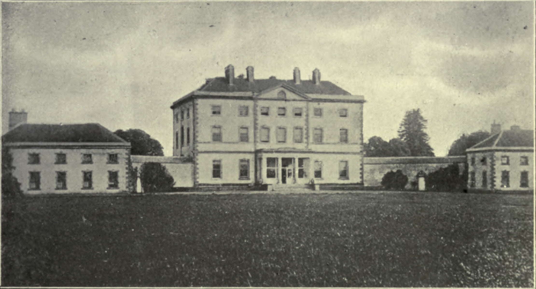 The Malone familiy estate Baronston in County Westmeath, Ireland.